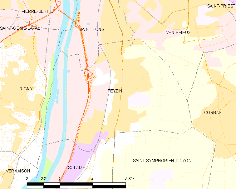 Map of French municipality